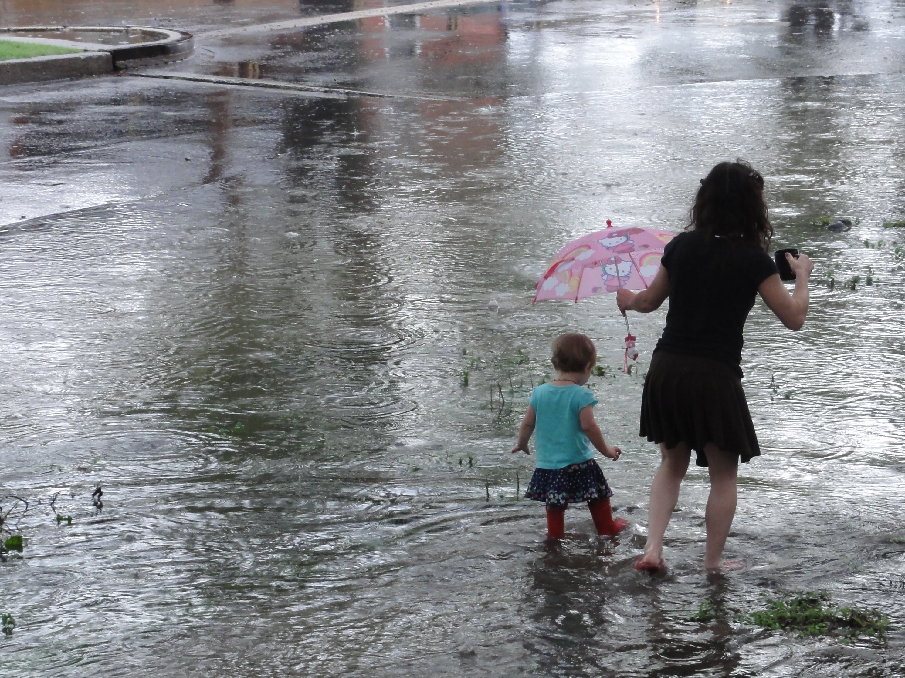 Mother and toddler daughter walking in rain, New Orleans.